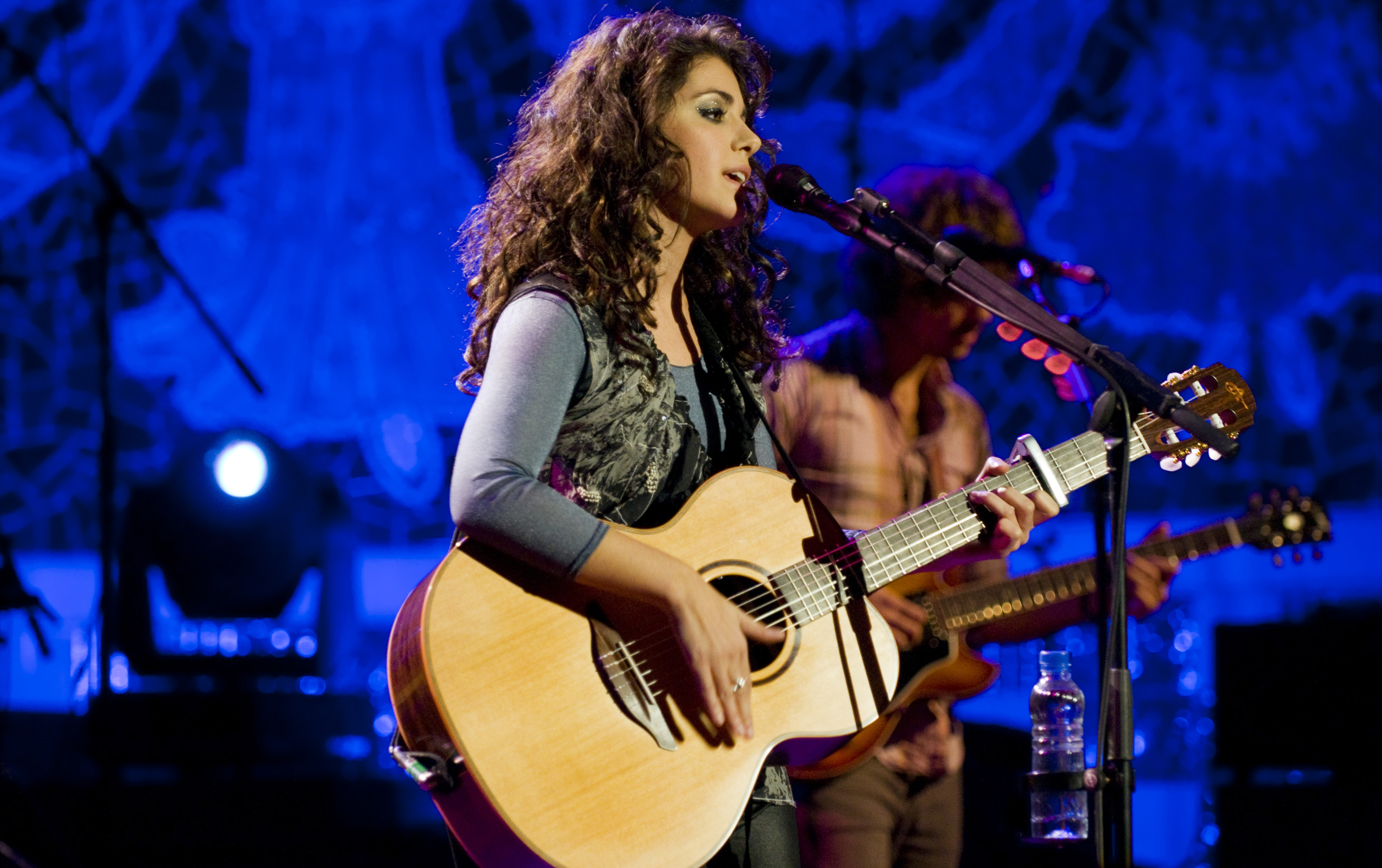 Katie Melua. Performing a live concert in the Palau de la Musica, Barcelona, November 2008.